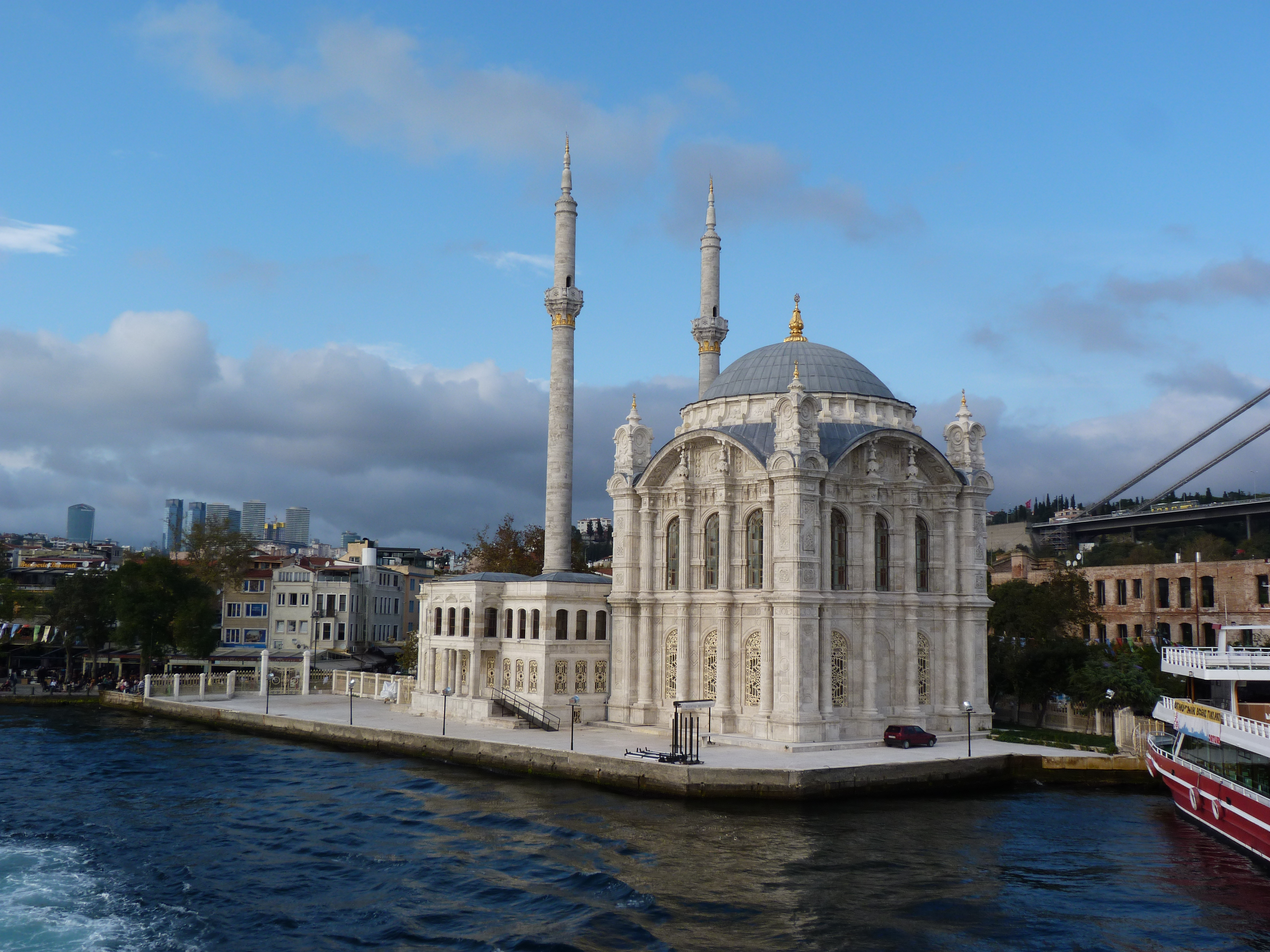 Live on the 24th of october, 2014. Bosporus, Istanbul. Ortaköy Mosque ©© Derzsi Elekes Andor, Budapest, 2014, Published in the Metapolisz DVD line. You are authorised to use this photo under Creative Commons – even for commercial, for profit purposes. The vid must be attributed to Derzsi Elekes Andor. All of the photos and vids in the Metapolisz DVD line are under Creative Commons and can be used even for commercial – for profit – purposes. Recommended Citation Derzsi Elekes Andor: Metapolisz DVD line